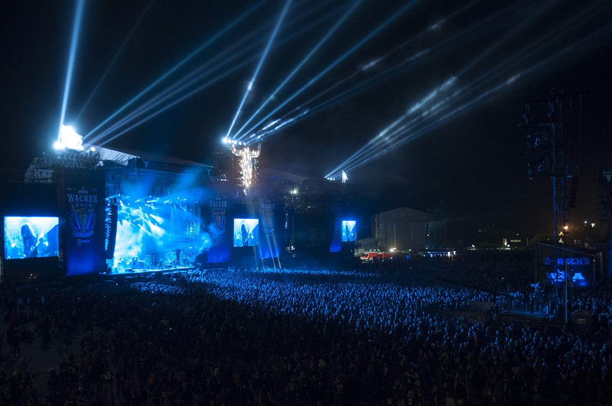 The Wacken Black Stage during the Kreator performance at Wacken Open Air 2014.